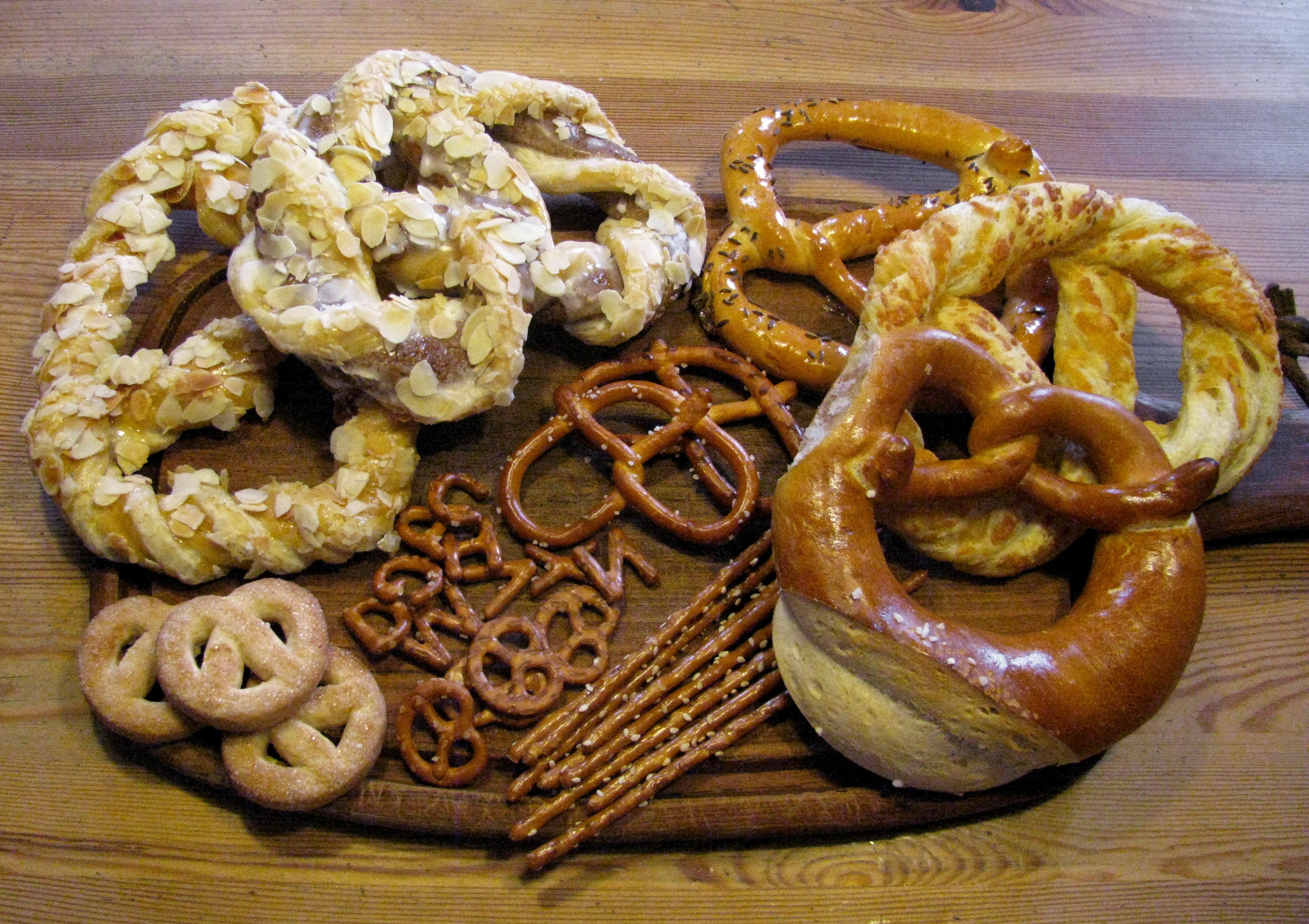 Selection of sweet and hearty pretzels (Germany)